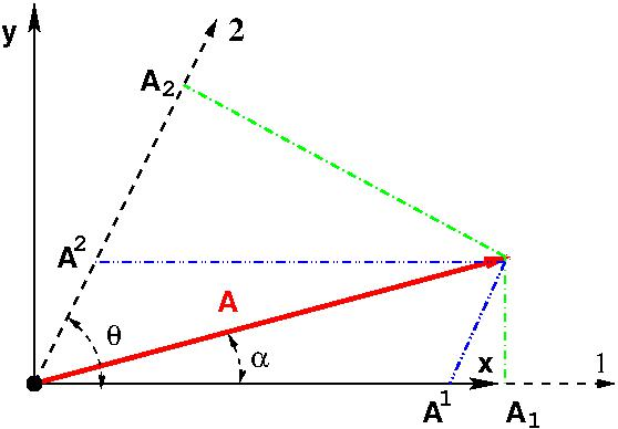 Contra and covariant components of vector